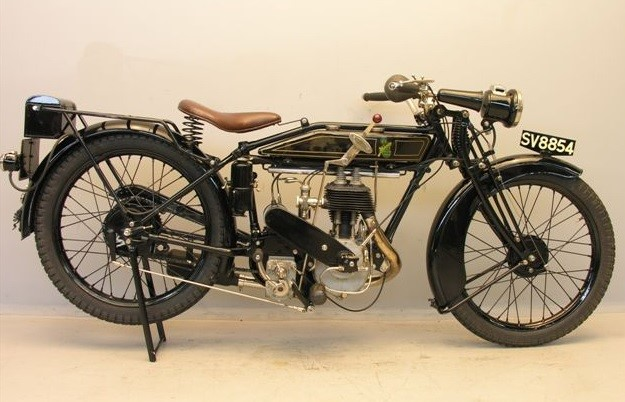 1926 Matchless Model L3 350cc Blackburne Side Valve engine